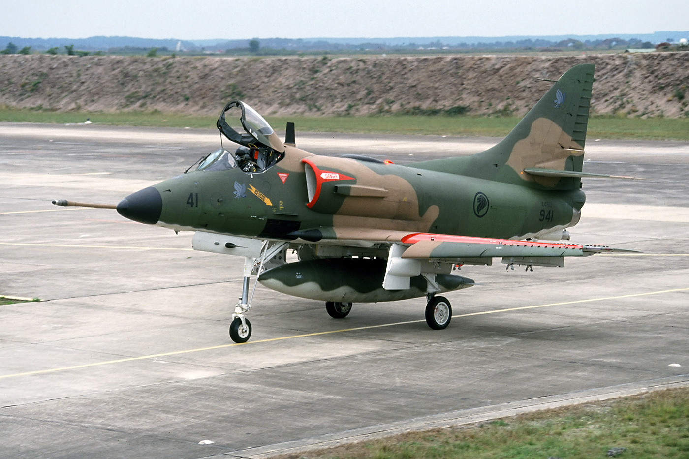 150 squadron of the Singapore Air Force has been stationed at Base Aérienne Cazaux (southern France) since 1998. 18 A-4SU 'Super Skyhawks' (in fact modernized A-4Cs) were used for advanced pilot training. In November 2012 the remaining 11 A-4s were replaced by Aermacchi M-346s.